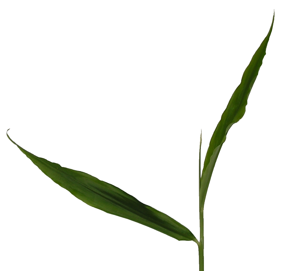 The top of the young sprout of Zingiber officinale